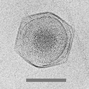 Cryo-electron micrograph of CroV particle. Scale bar represent 2,000 Å.